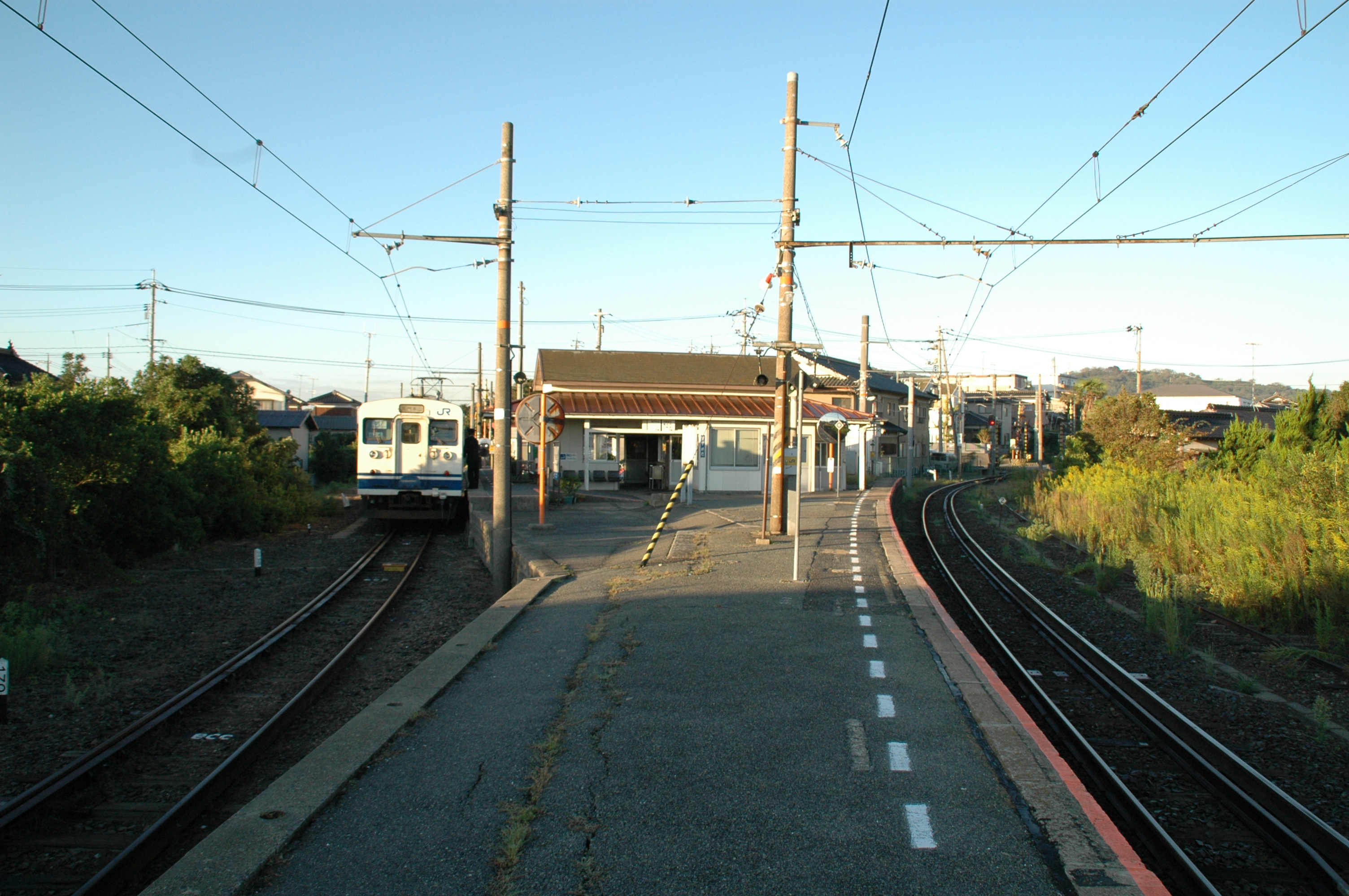 West Japan Railway, Onoda Line, Suzumeda Station. photo by 2005.10.16